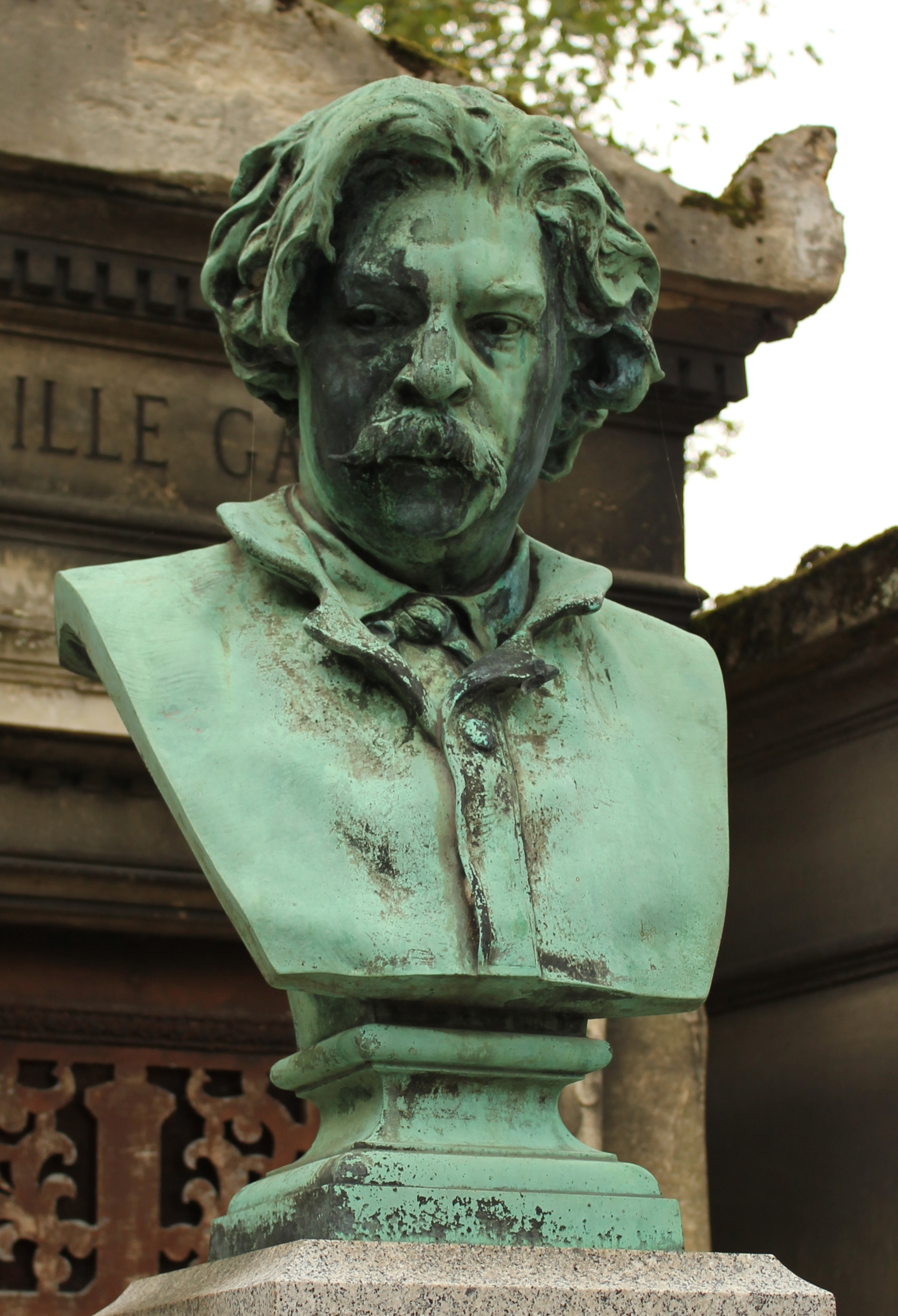 Thomas Couture's tombstone in Père Lachaise Cemetery, in Paris.